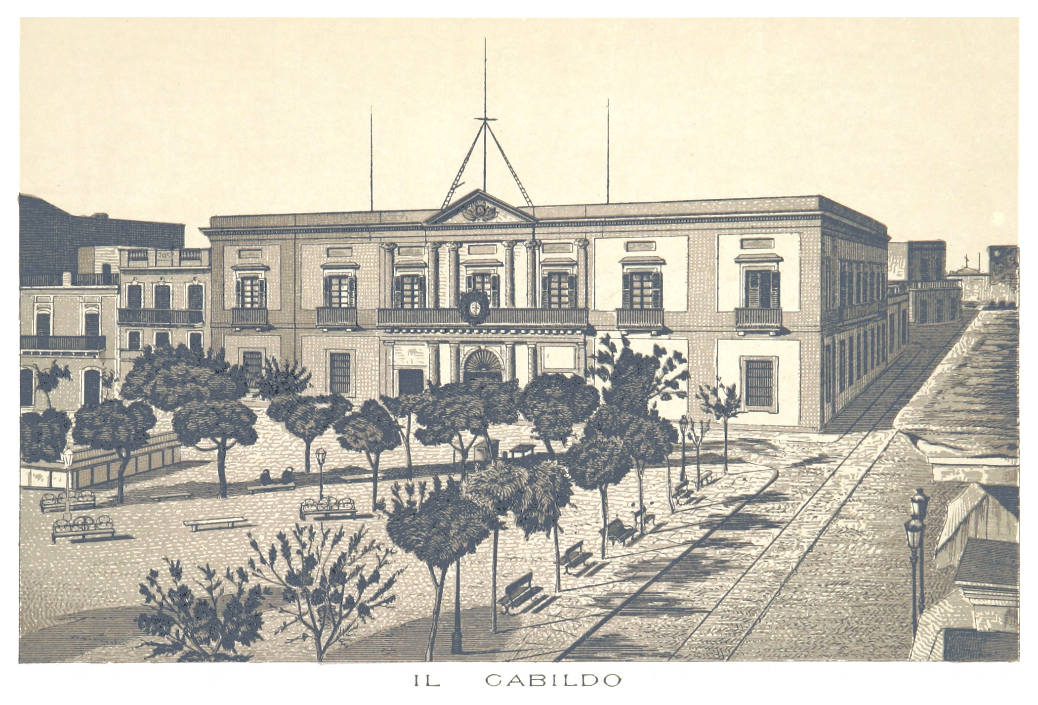 The Cabildo of Montevideo. During part of the 19th century it housed the Parliament of Uruguay.